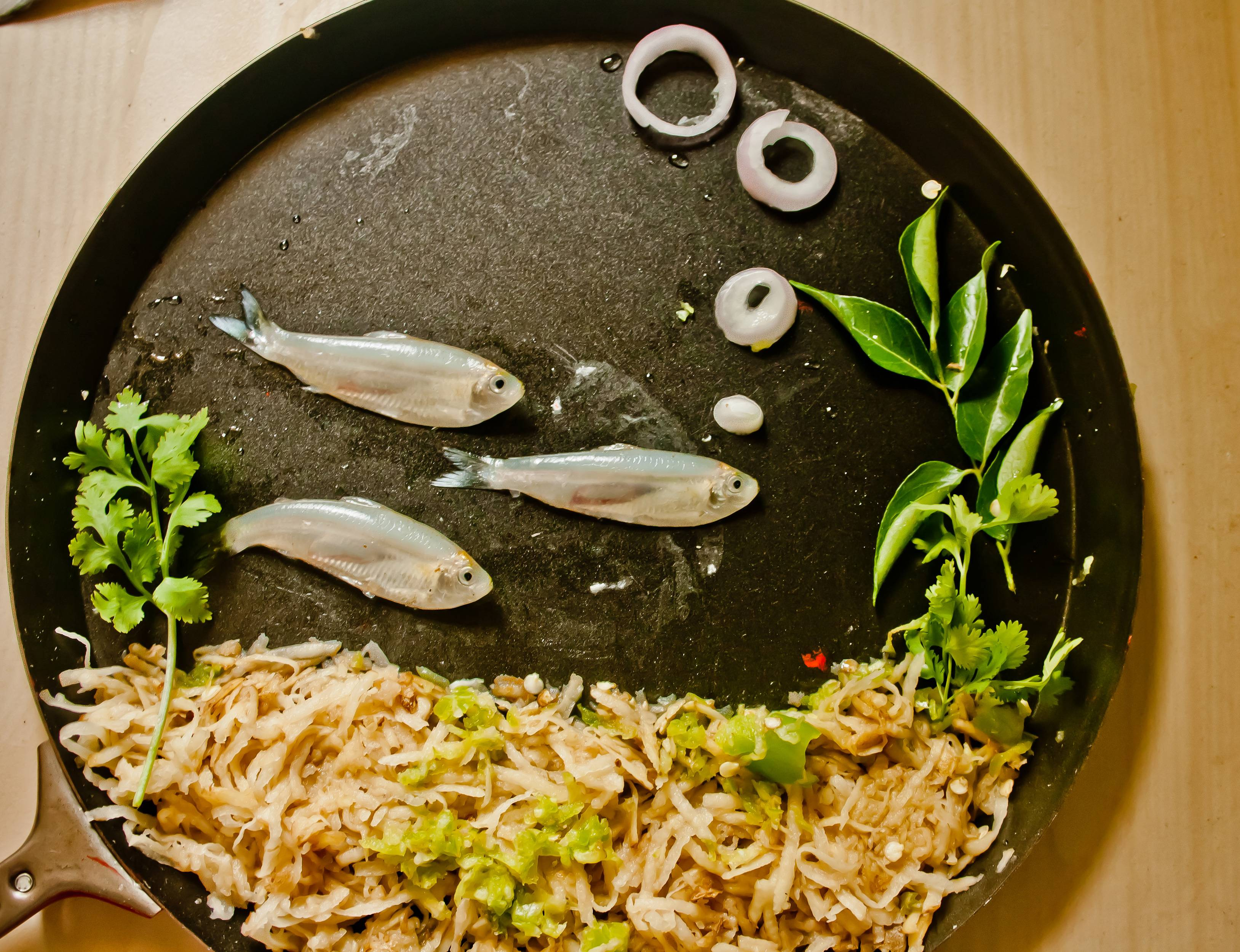 If you use this photo anywhere - plz credit . Thanks!